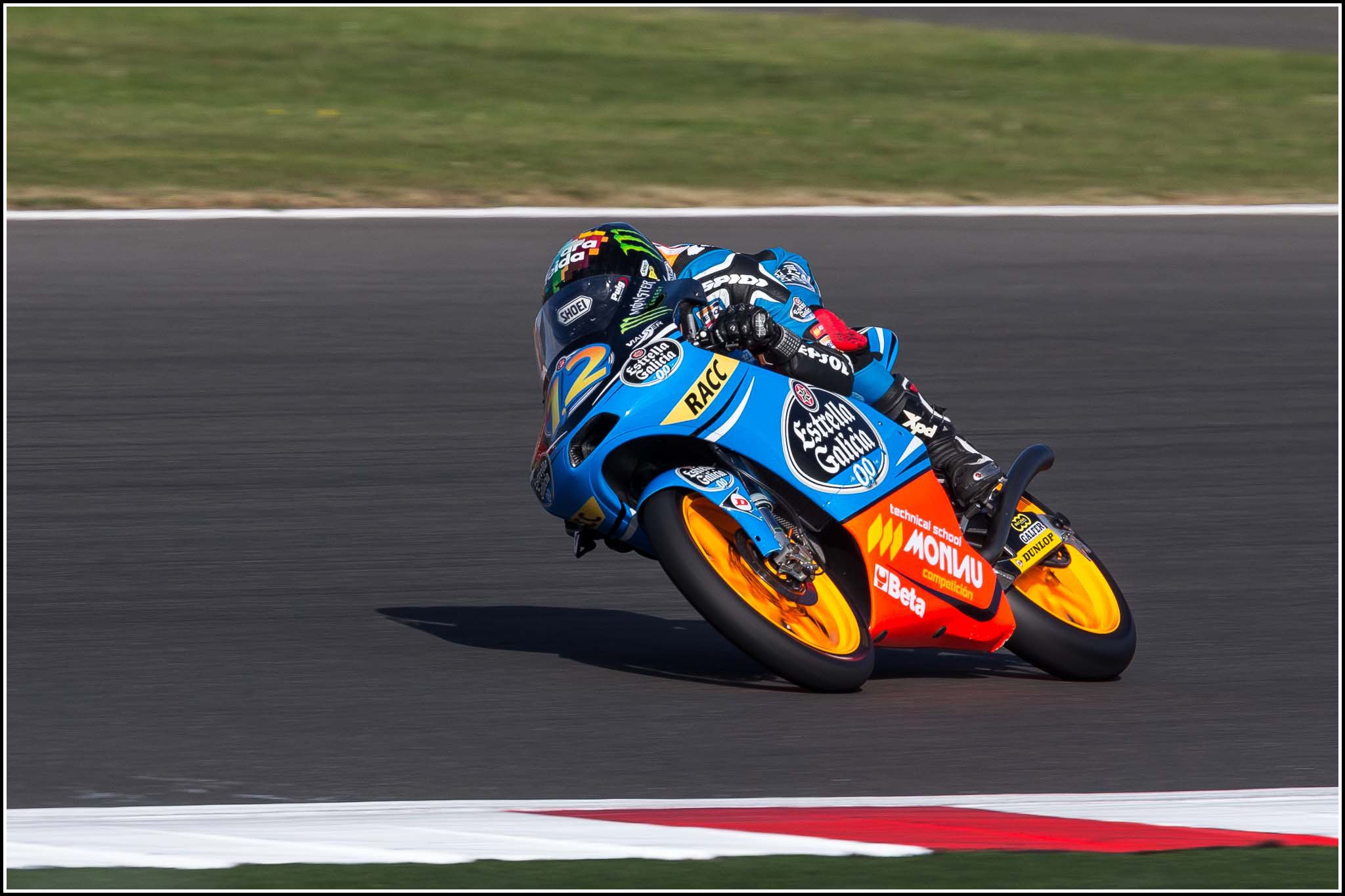 MotoGP Practice Silverstone 31st August 2013.